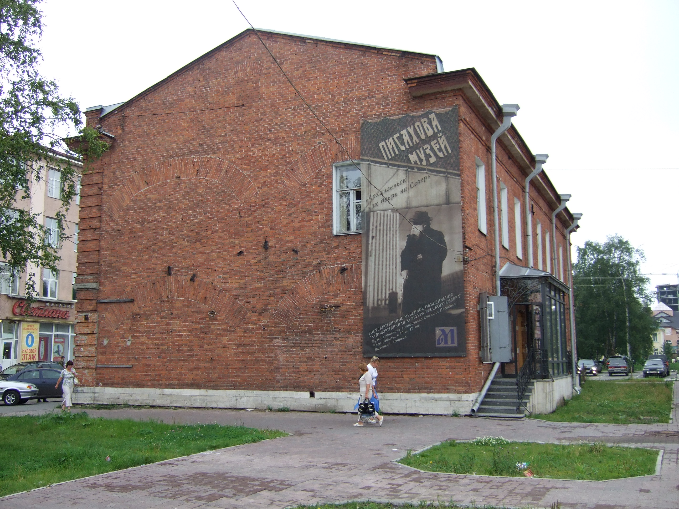 Pisakhov Museum at Arkhangelsk